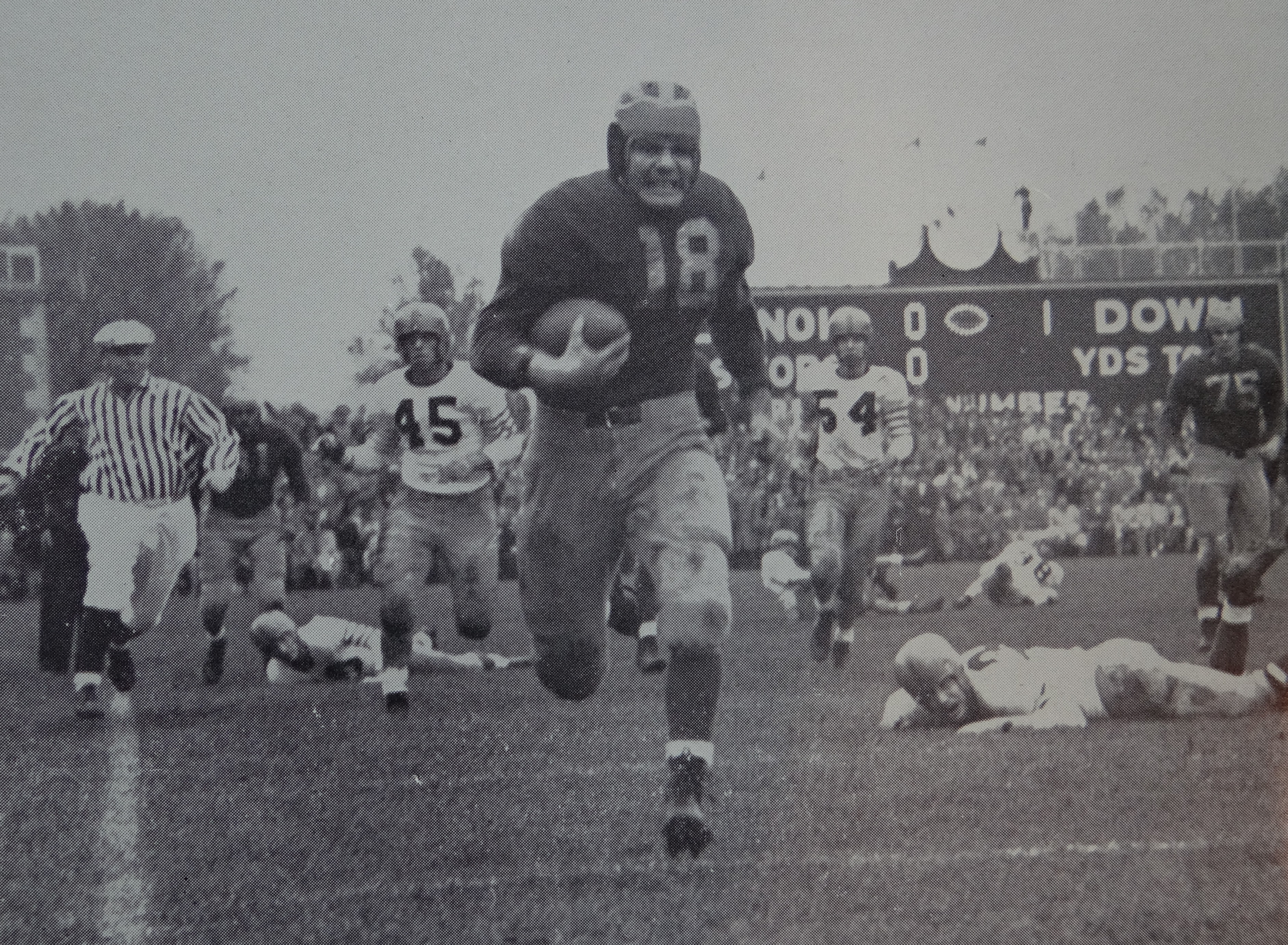 Michigan football player Bump Elliott runs 74 yards for a touchdown against Illinois on November 1, 1947 Michigan football player Bump Elliott runs 74 yards for a touchdown against Illinois on November 1, 1947